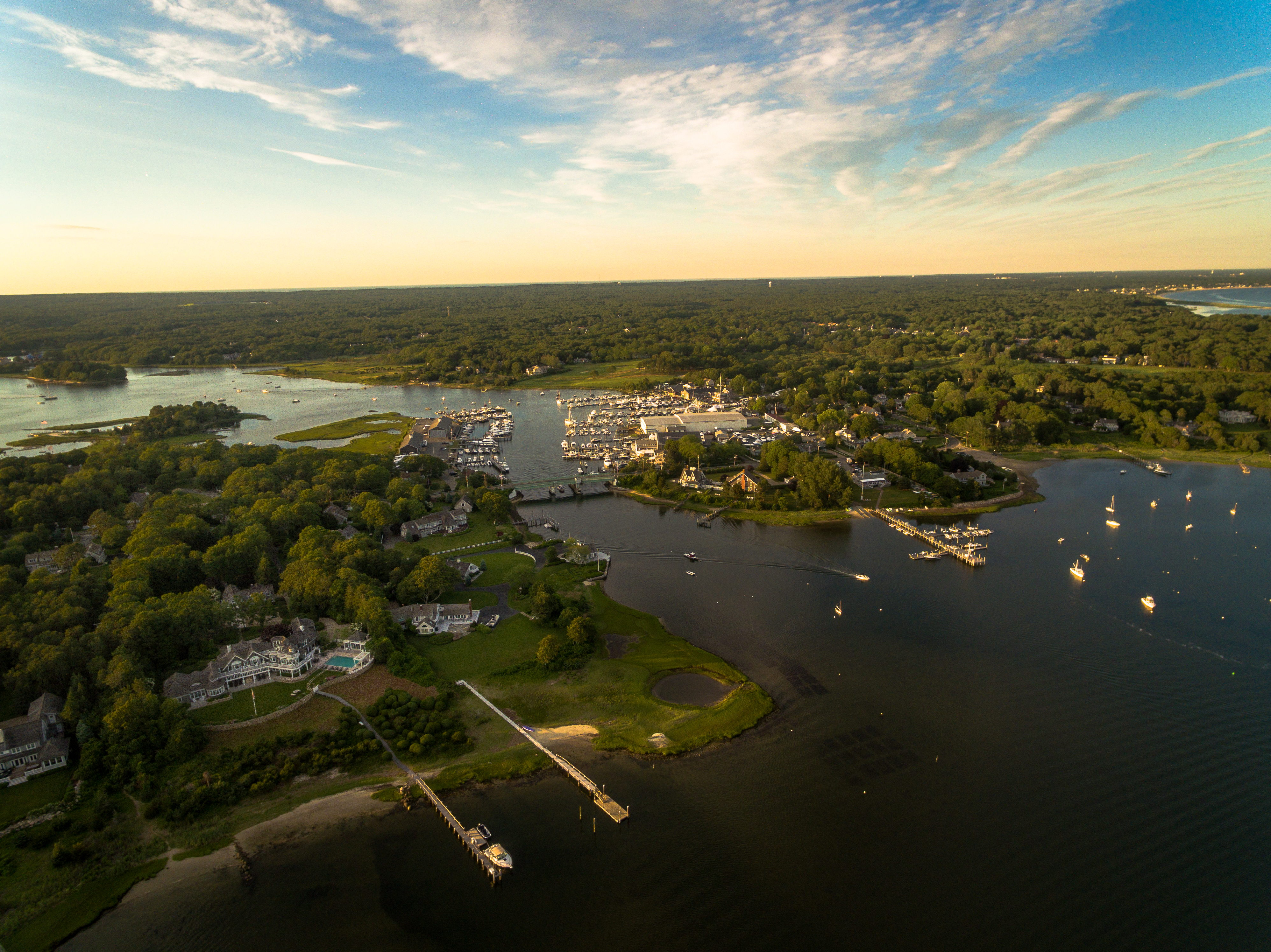 Osterville, MA and West Bay Drawbridge as seen June 2017